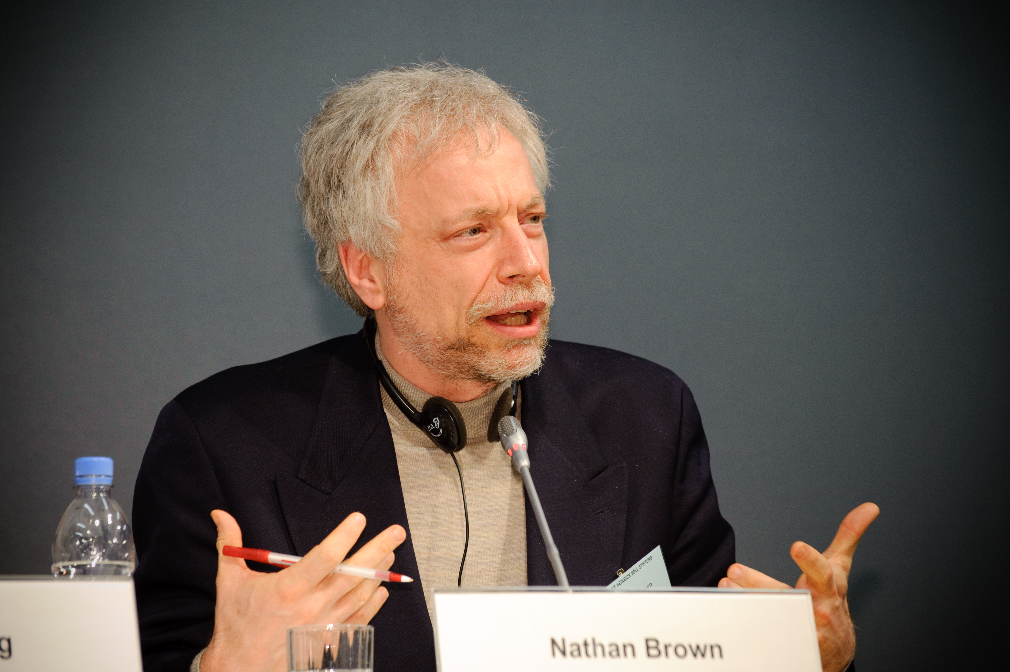 Foto: Stephan Röhl